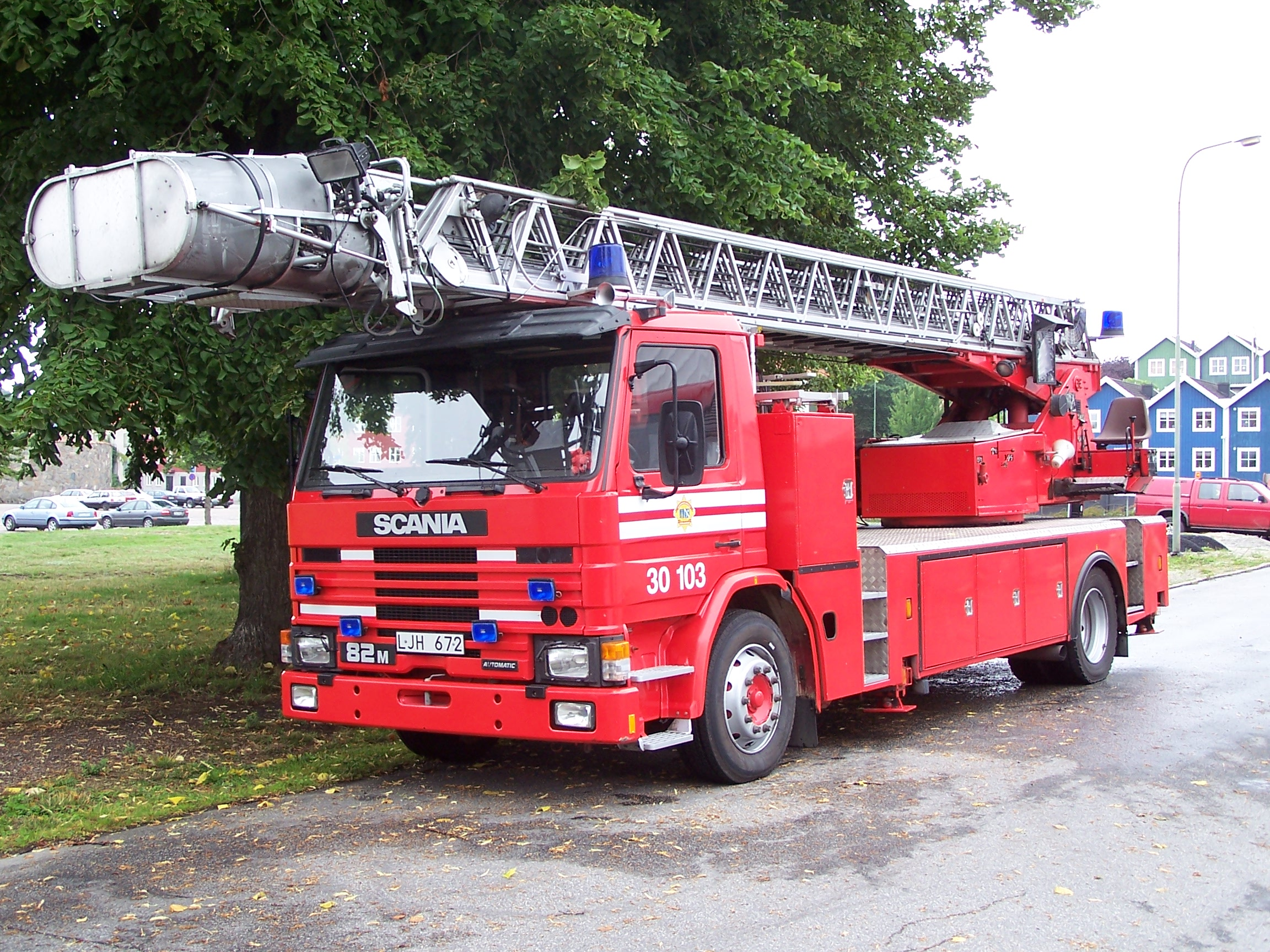 Front of fire engine in Karlskrona, Scania G82M.